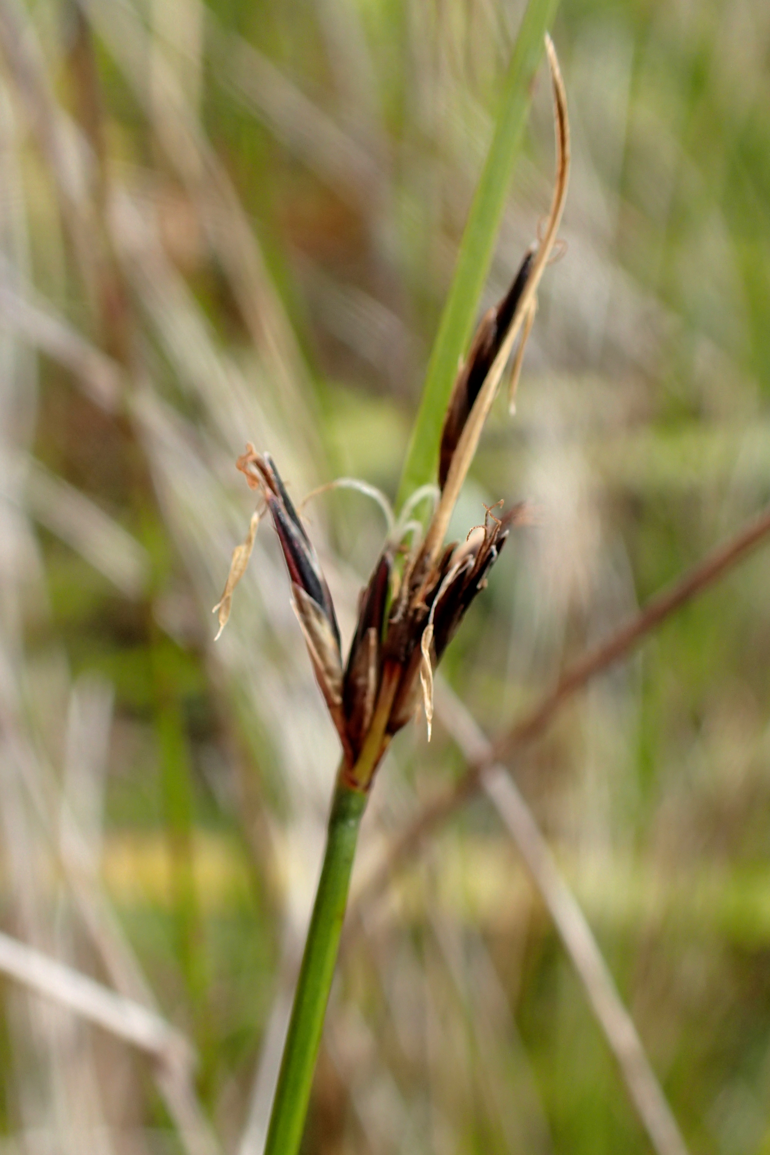 Schoenus pauciflorus in Auckland Botanic Gardens